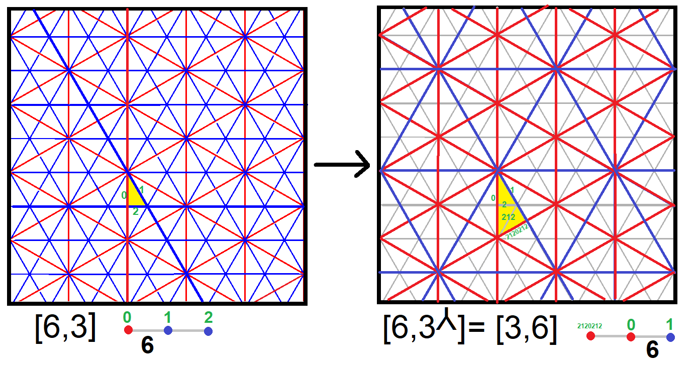 Example trionic subgroup, shown as fundamental domains in [6,3] symmetry